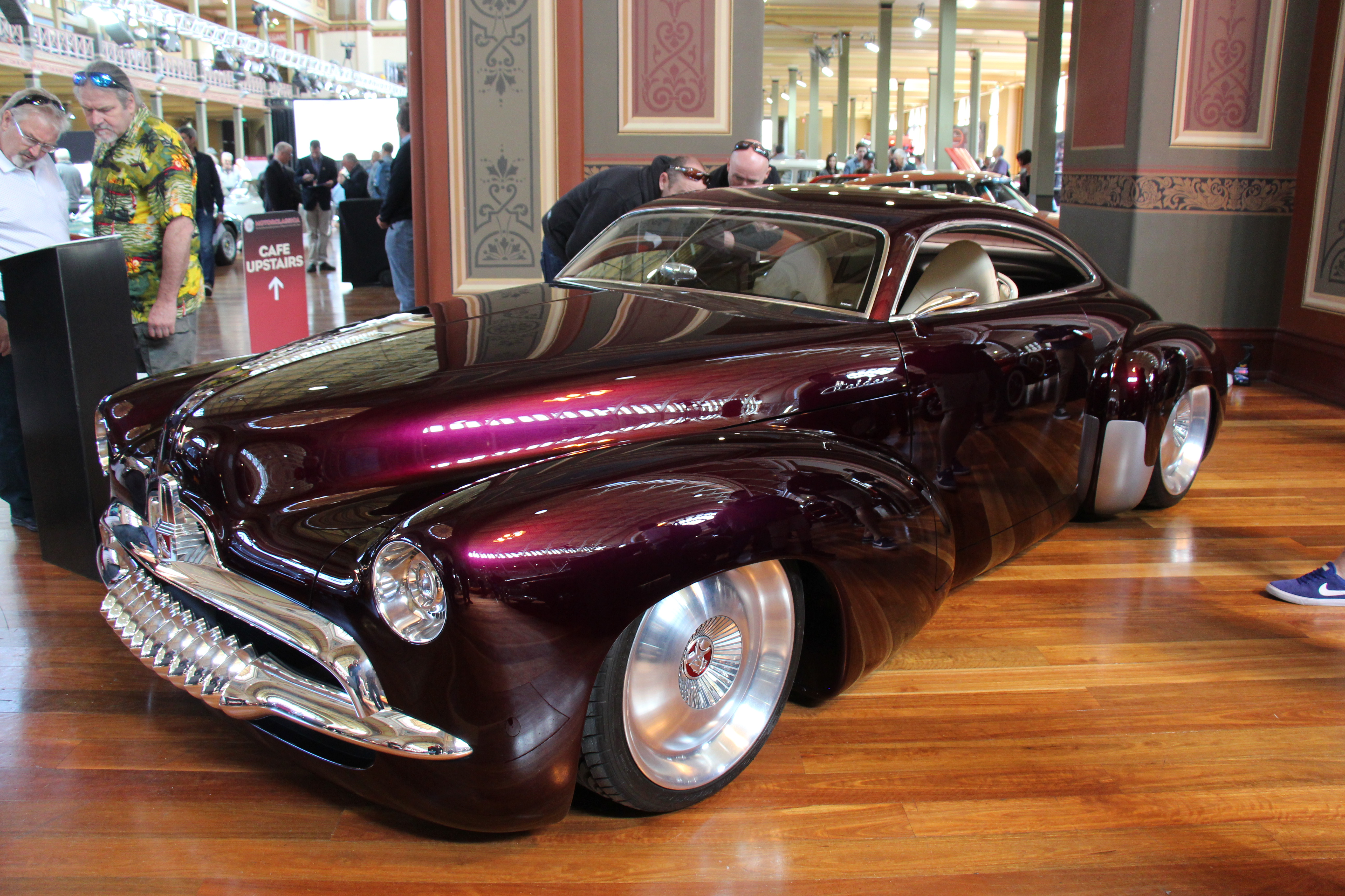 This prototype was built at Holden to celebrate the 50 year anniversary of the FJ Holden, it would of cost a lot of money, except it was a labour of love handcrafted by Holden designers after-hours over several years. It is built on a Chevrolet Corvette floor pan, a 6.0 litre V8 engine with Roots supercharger putting out 644 hp. It rides on an air suspension system that lowers the car when the car is stopped, and also has electronic instrumentation including a multi-use display screen that disappears into the dash.